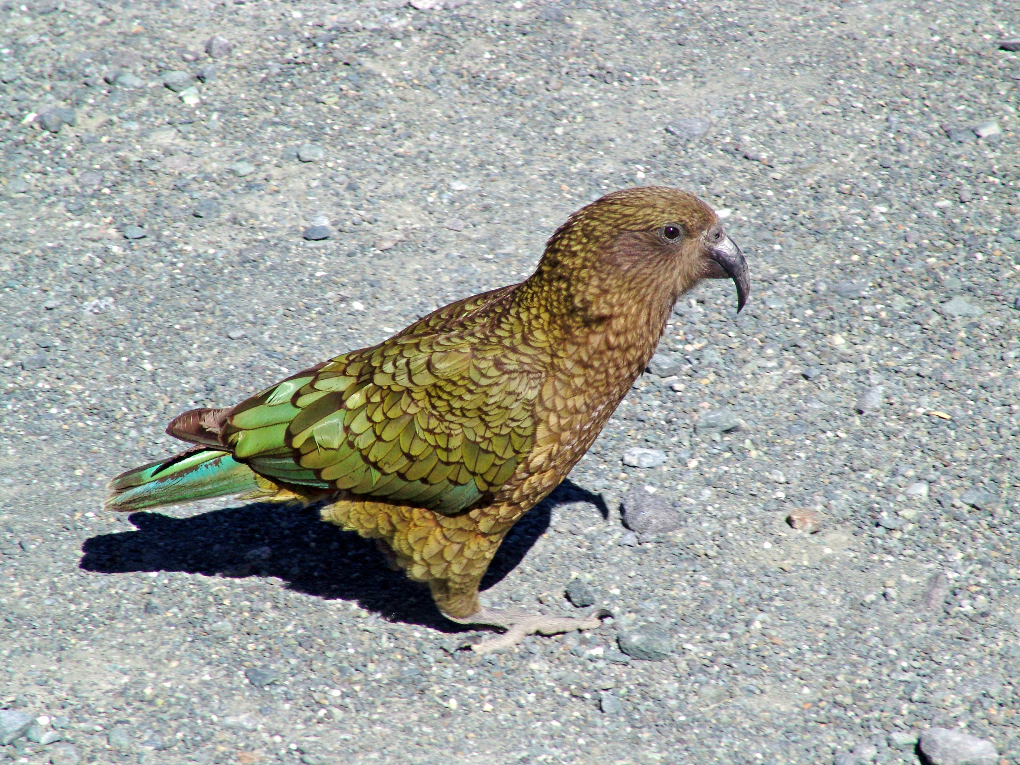 Kea (Nestor notabilis) standing on ground.